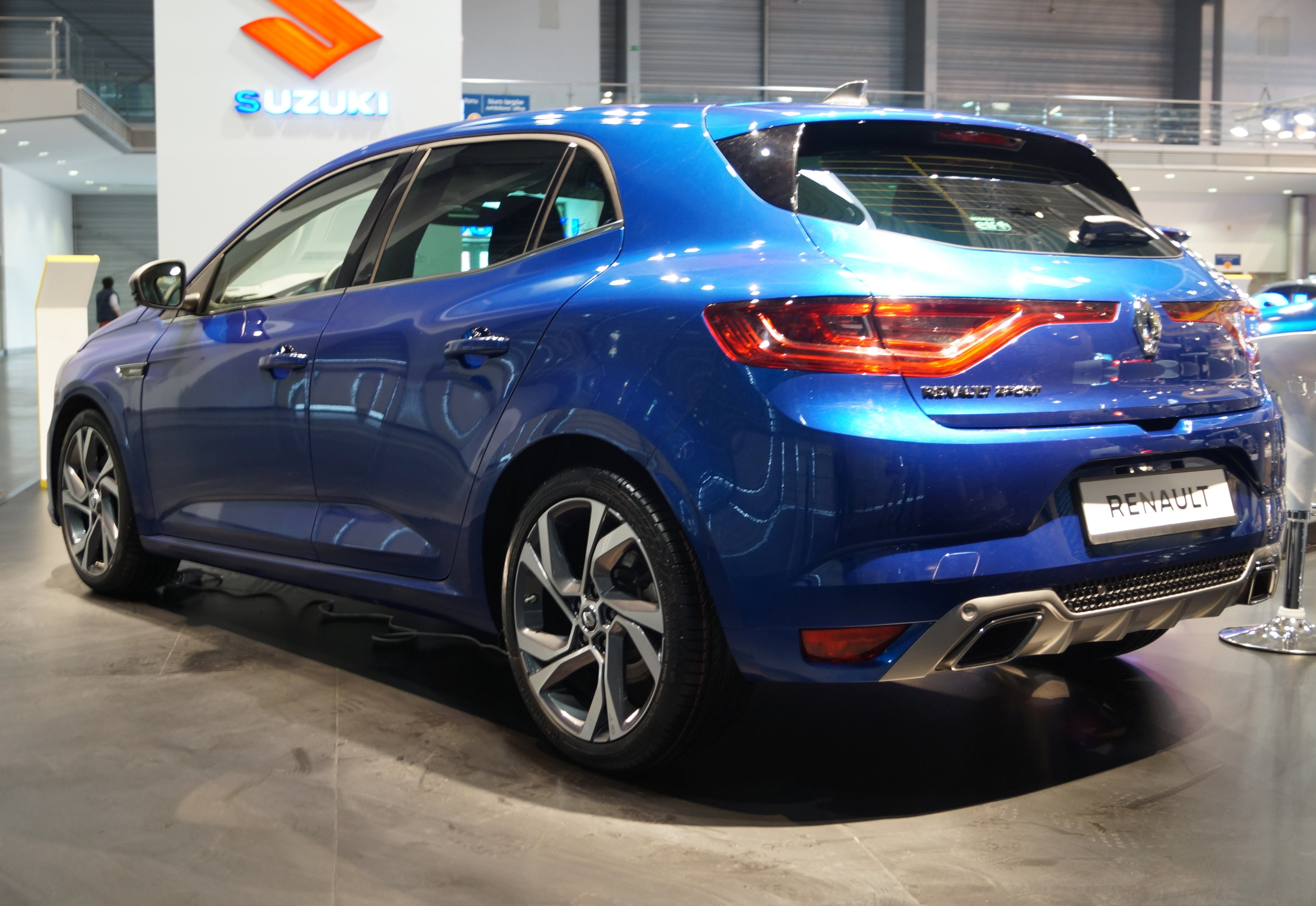 The making of this document was supported by Wikimedia Polska Association, within Wikigrant no. WG 2016-10. Tył Renault Mégane na Motor Show Poznań 2016